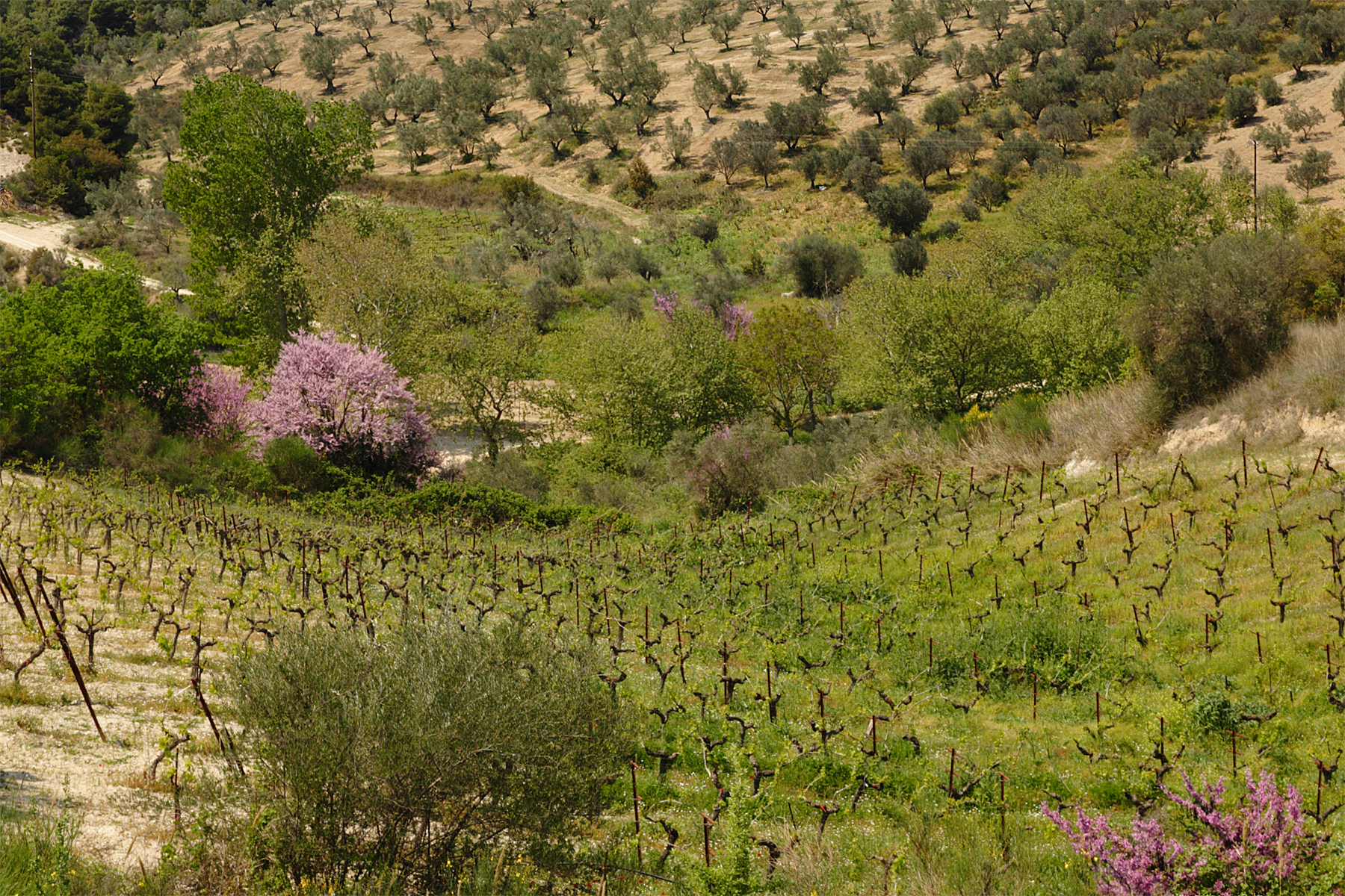 Orchard in springtime on the peninsula Peloponnese, Greece. Corinthia’s Nemea is probably the most important wine area of Greece. Further products are olive oil and raisins. In the mechanized economy of the area a small scale agriculture survived and saves many opportunities for biodiversity.